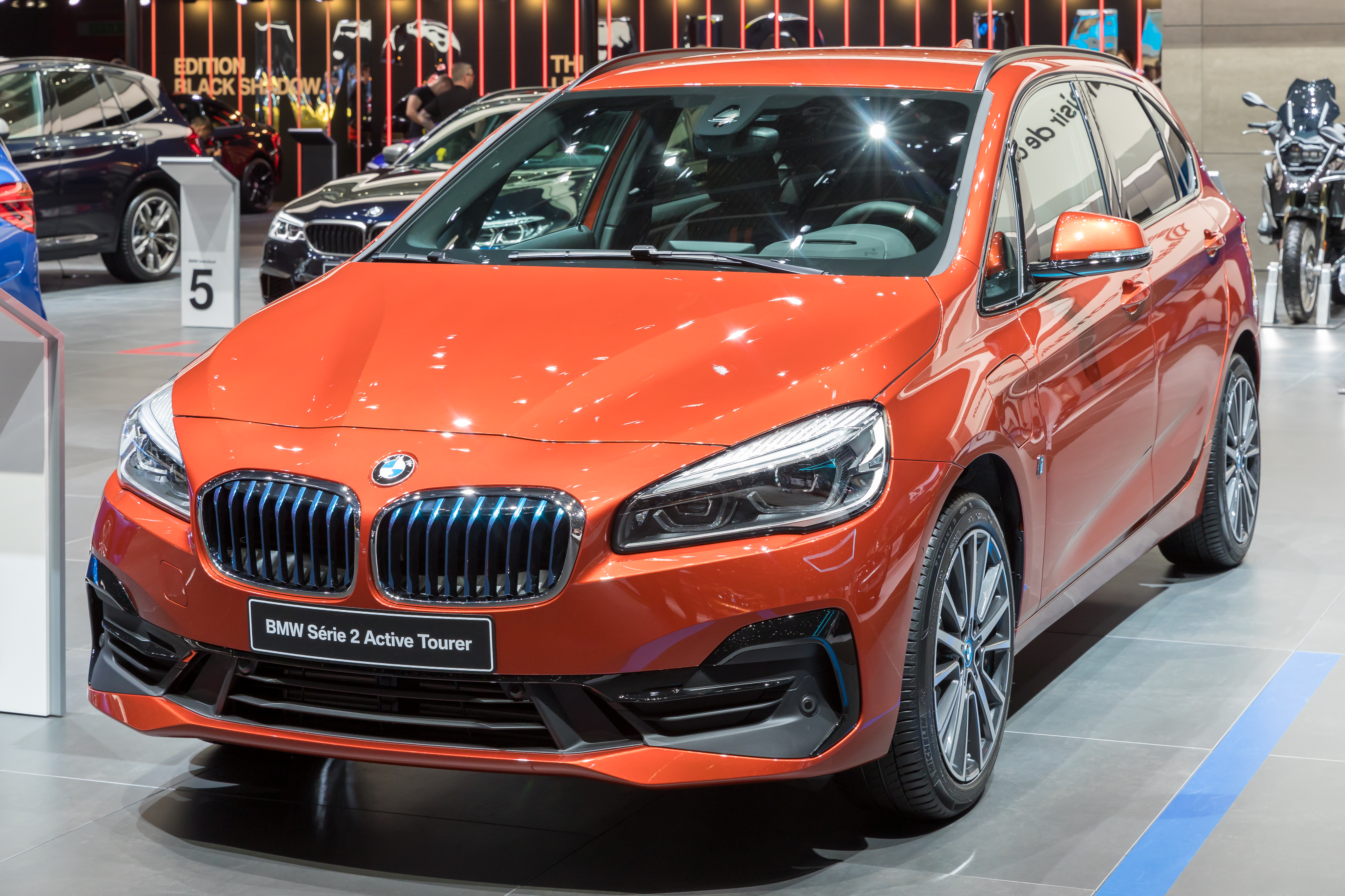 Geneva International Motor Show 2018